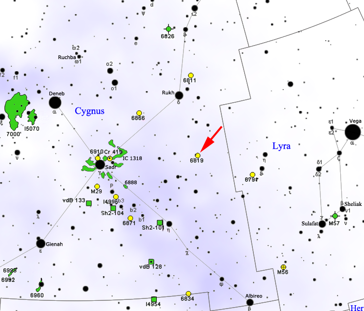 Map of NGC 6819